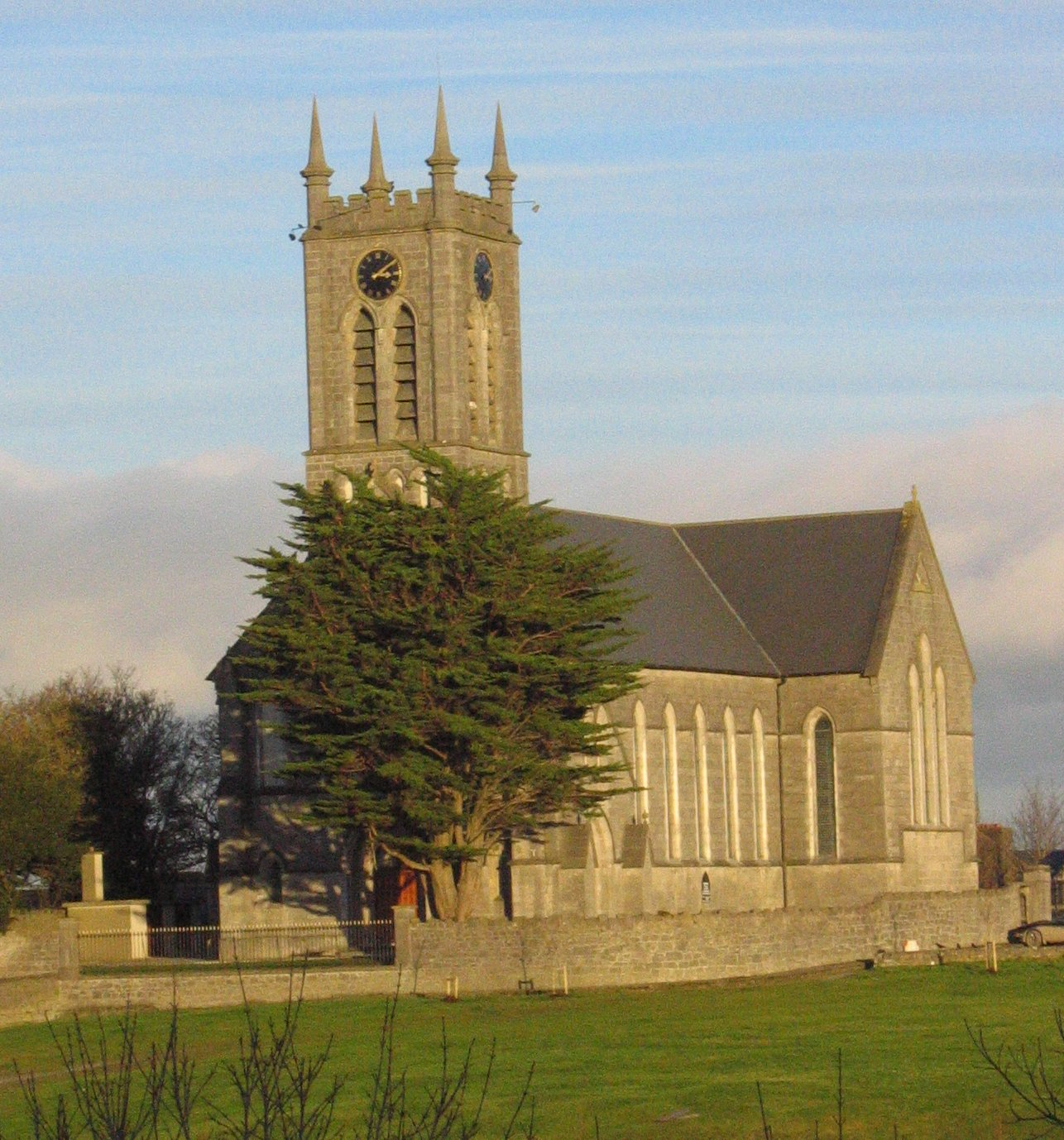 Church in Ballinasloe, County Galway, Ireland. Photo by user:Tournesol